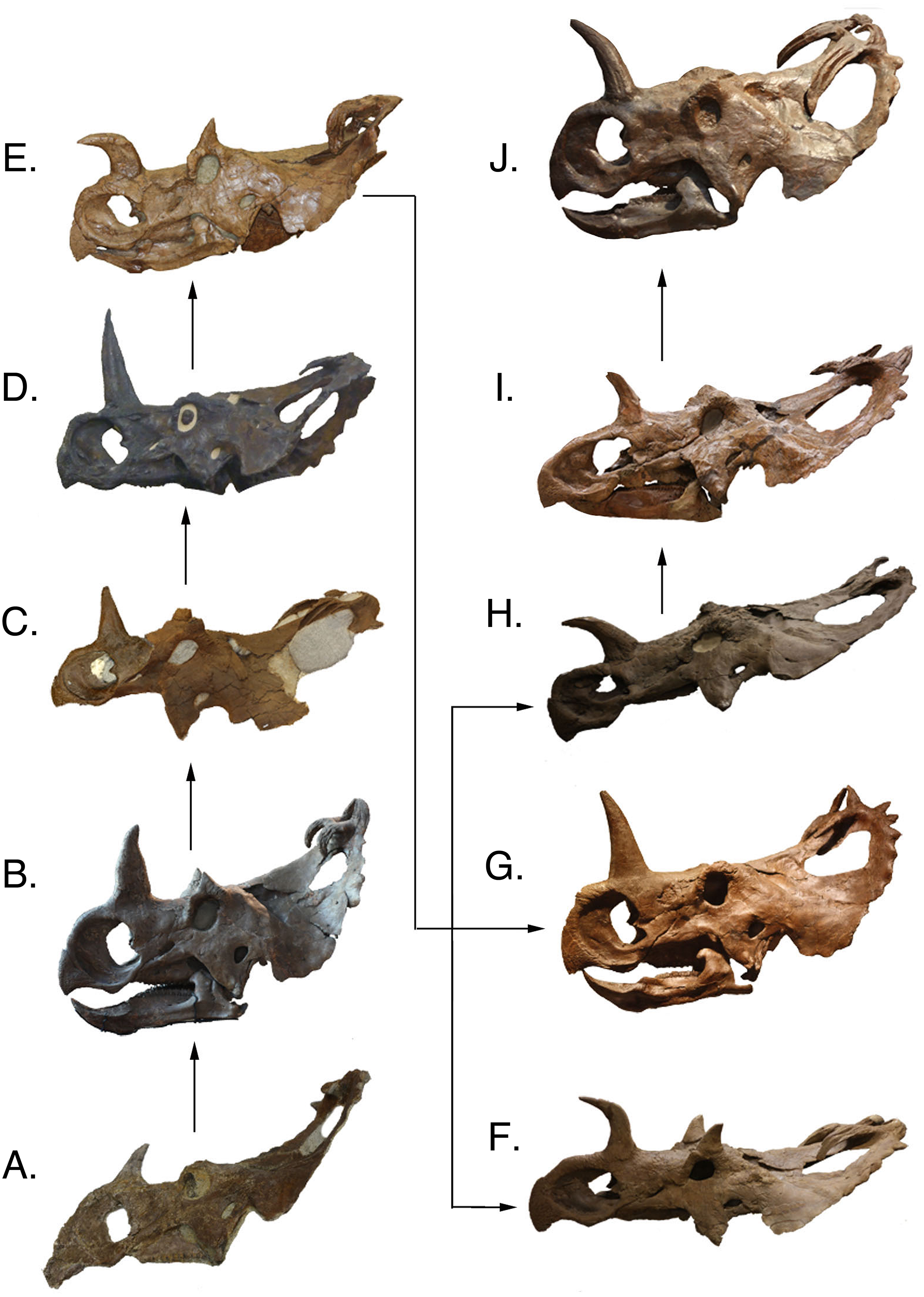 Complete Centrosaurus skulls in lateral view arranged in ontogenetic order from the relatively least mature to the relatively most mature specimens, based on the reduced multistate tree. Skulls are not to scale. (A) TMP 1992.082.0001; (B) ROM 767; (C) TMP 1994.182.0001, (D) AMNH FARB 5351, (E) CMN 348; (F) UALVP 11735; (G) USNM 8897; (H) TMP 1997.085.0001; (I) CMN 8795; (J) YPM 2015. Images of TMP 1994.182.0001, AMNH FARB 5351, and CMN 8795 are reversed (mirrored). AMNH FARB 5351 and TMP 1997.085.0001 are represented here by casts. Division of Vertebrate Paleontology, YPM 2015. Courtesy of the Peabody Museum of Natural History, Yale University, New Haven, Connecticut, USA.